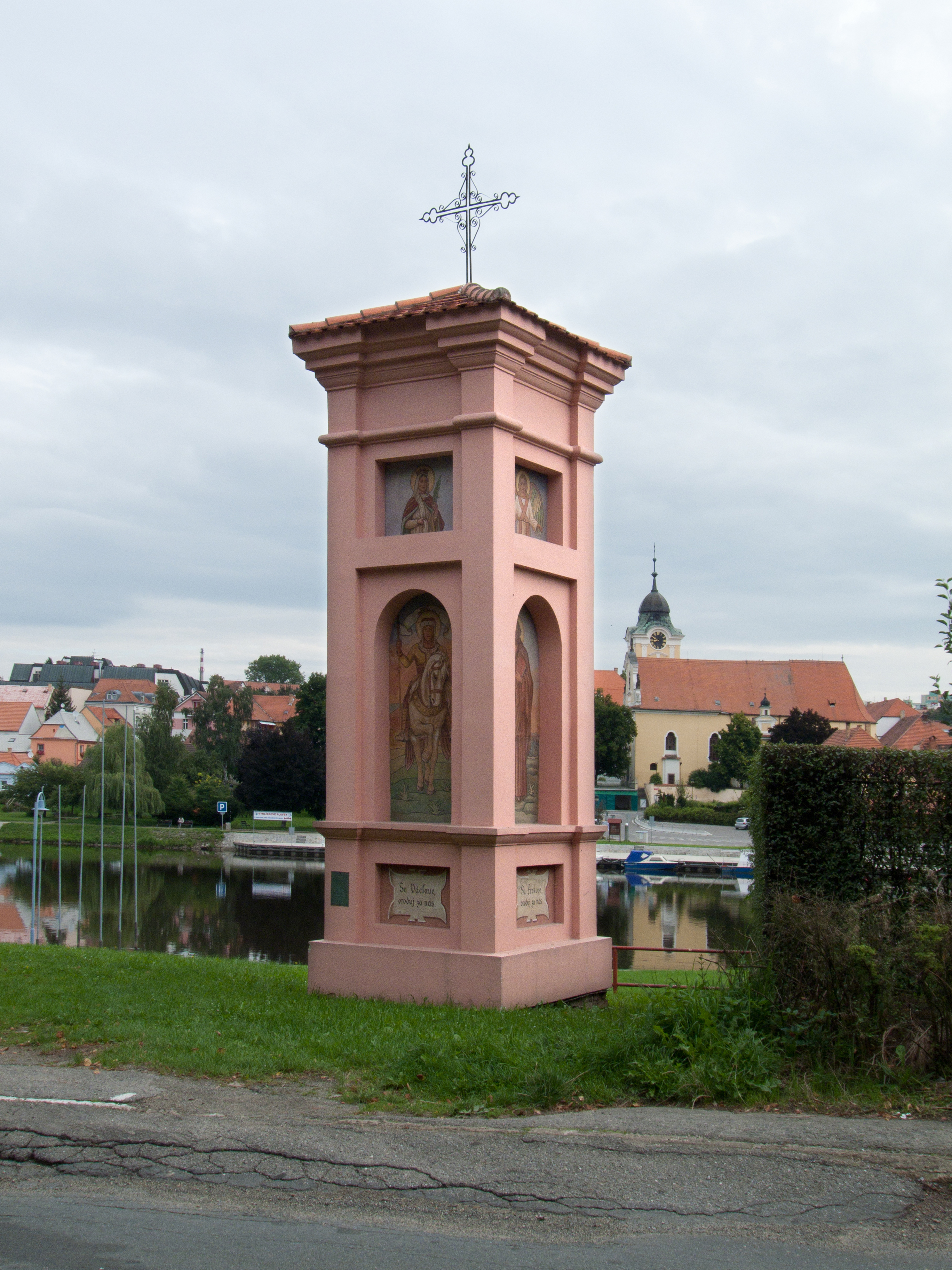 Wayside shrine in Malá Strana, part of the town of Týn nad Vltavou, České Budějovice district, Czech Republic